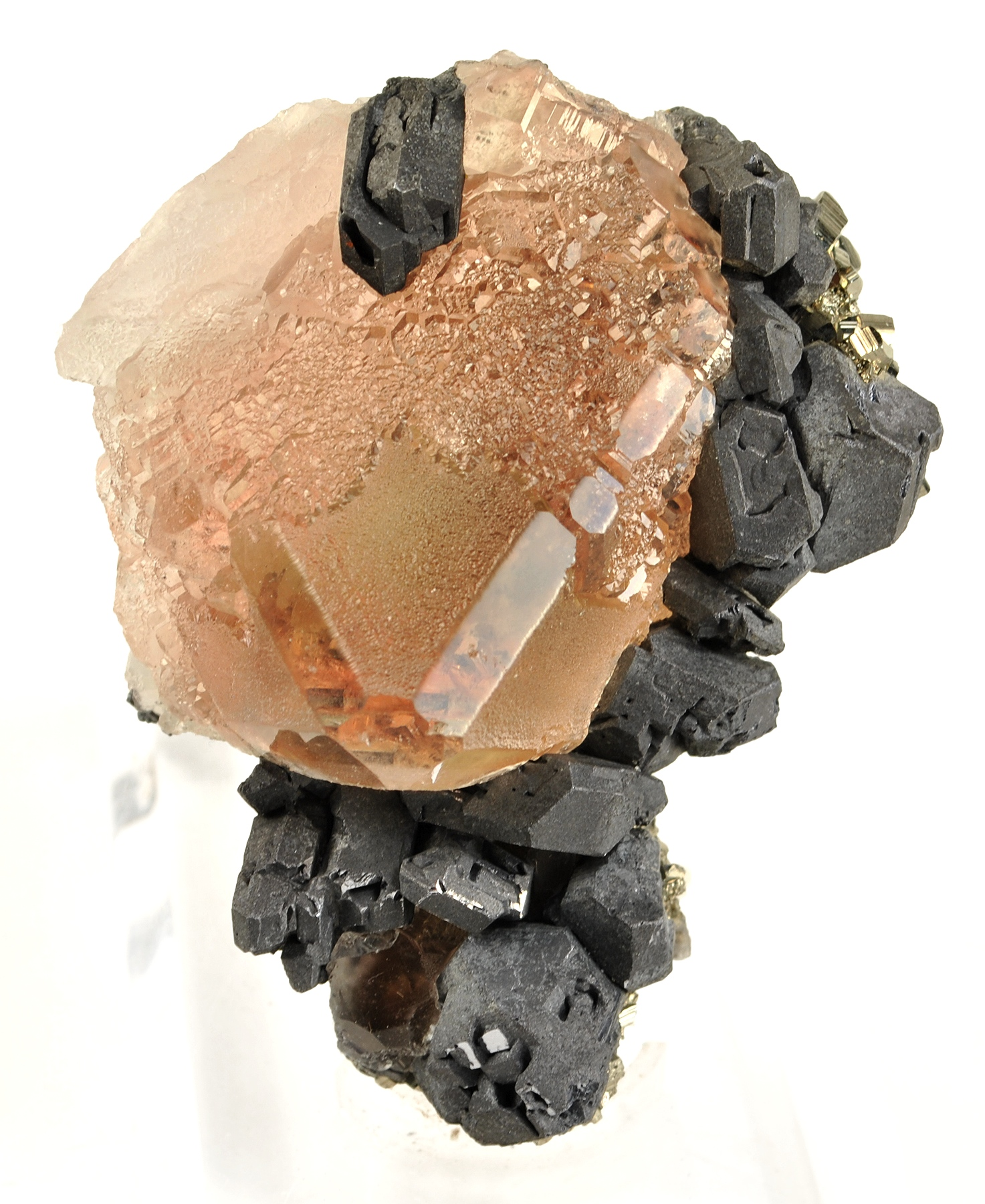 Fluorite, Galena Locality: Huanzala Mine, Huallanca District, Dos de Mayo Province, Huánuco Department, Peru (Locality at ) Size: small cabinet, 7.4 x 6.1 x 4.2 cm Fluorite with Galena This specimen is from a small new find in Peru, from mid-January of 2010. It produced a number of fluorites associated with sharp, accenting galena crystals. However, few of the fluorites were glassy , most having the matte faces typical of this mine. This piece is a little unusual in that it is a modified octohedron (5 cm long), with glassy side bevels and complicated octohedral faces with minute and intricate surface modifications. It is a complete crystal, even on its backside which sticks off the galena matrix plate (though it is complete around back in a technical sense, it is not a sharp termination in back, I should clarify). The color is a rich pink hue, with a slight green core seen in some lighting. For the size range, one of the best I know of from the find because of its intricate structure and nice balanced association.